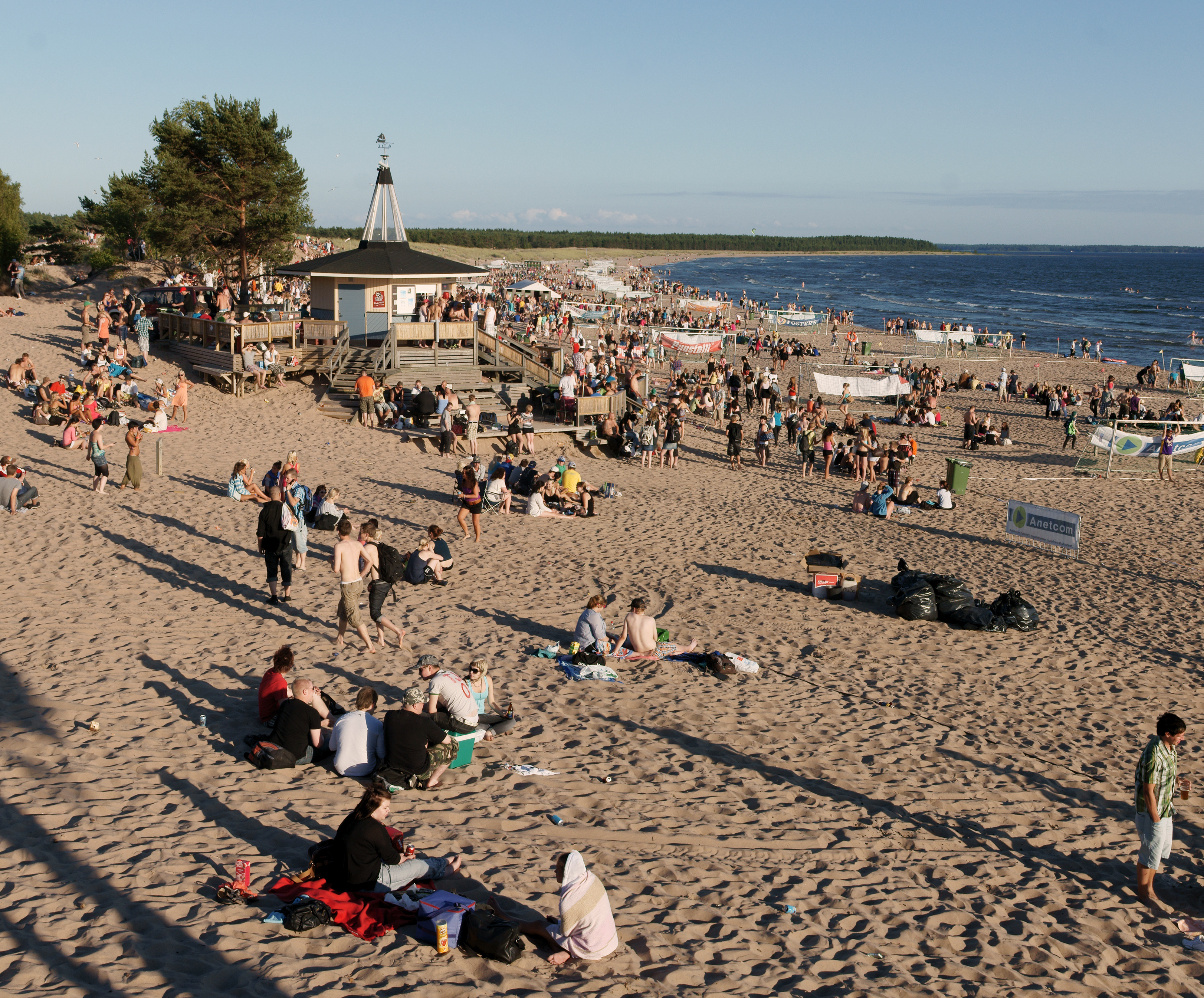 Yyteri beach and Bikini Bar during Yyteri Beachfutis.